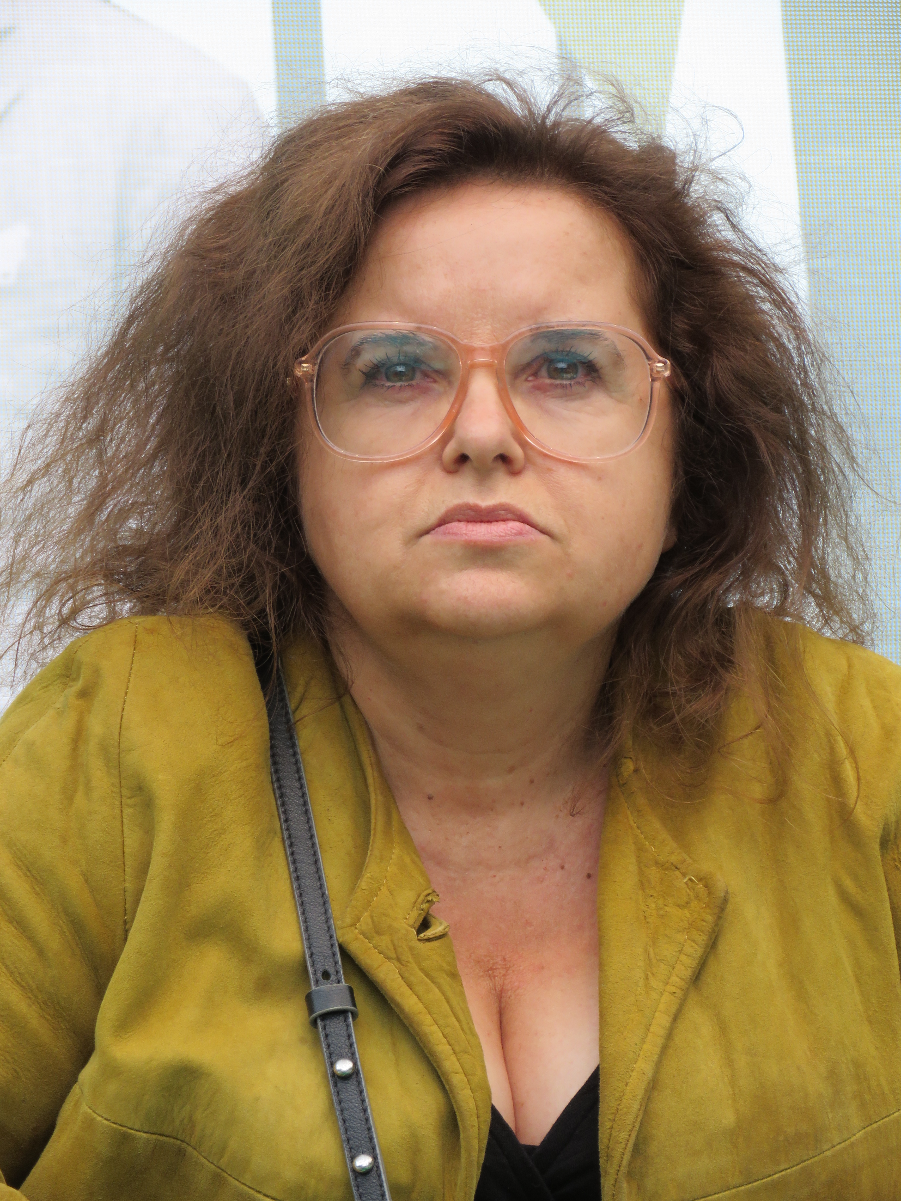 Zyta Rudzka (b. October 10, 1964 in Warsaw, Poland) - a Polish writer.